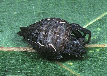 female Cyrtophora exanthematica from Okinawa.